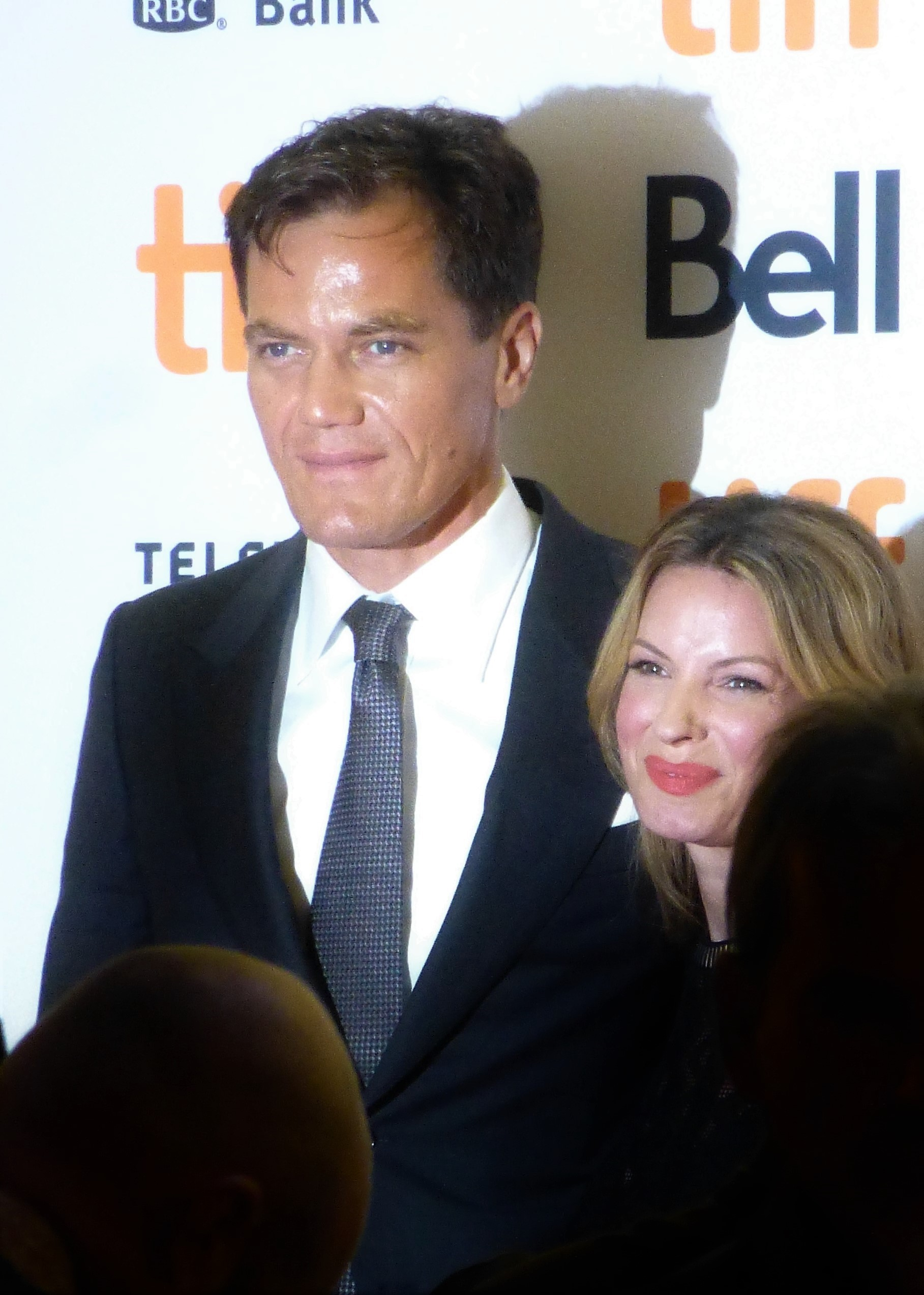 Michael Shannon and Kate Arrington at the premiere of Nocturnal Animals, 2016 Toronto Film Festival